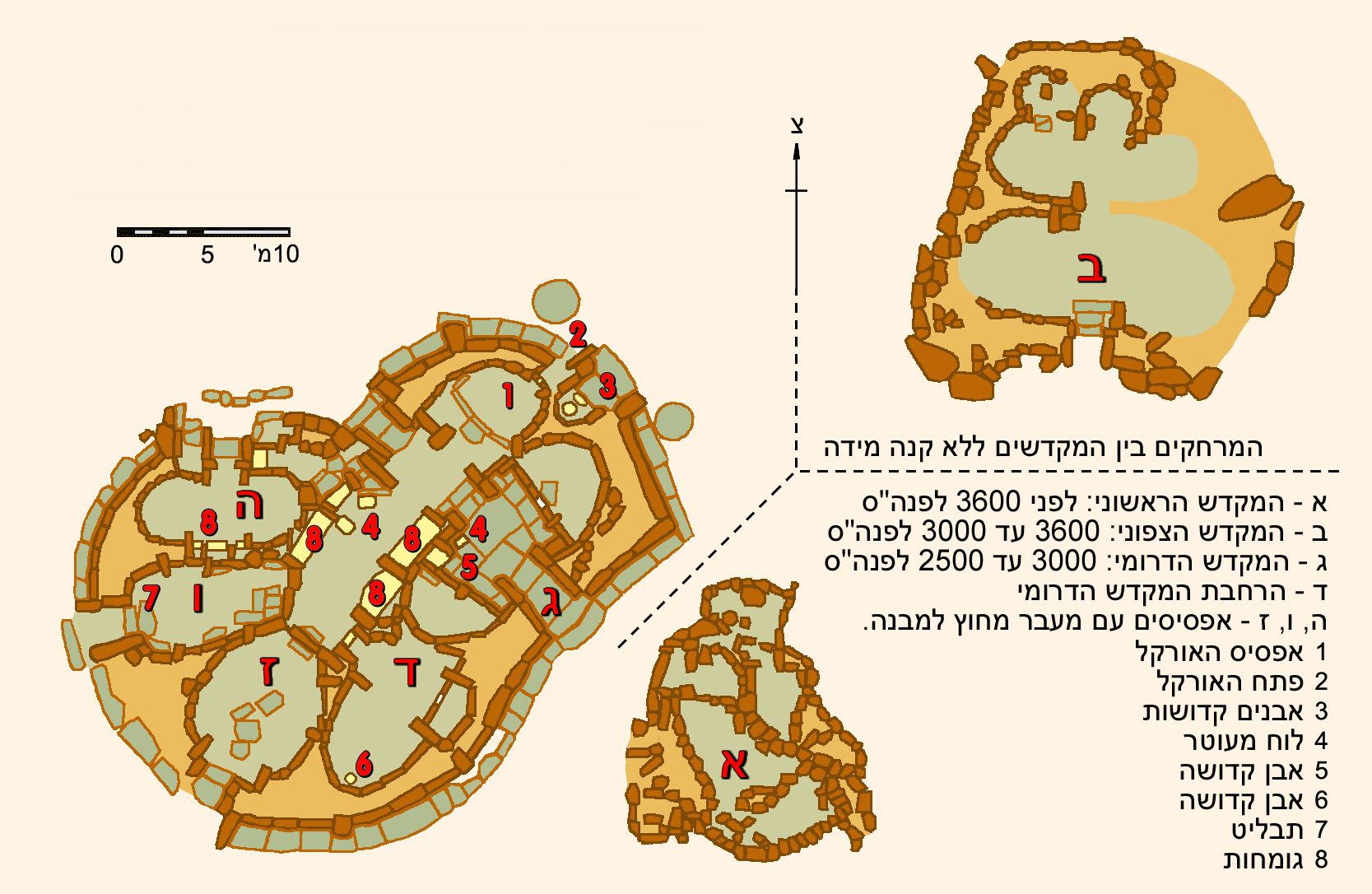 plan du site des temples de Hagar Qim